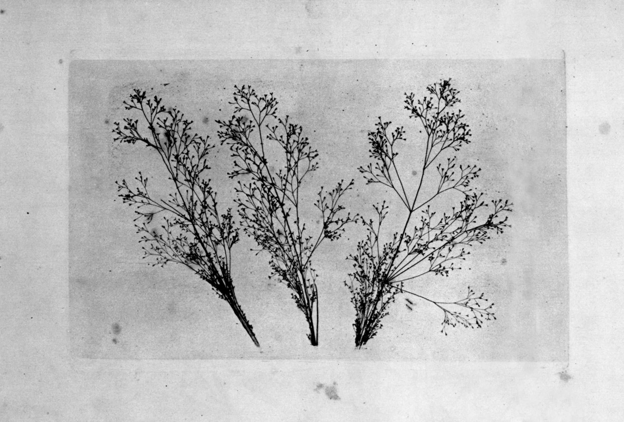 A so called "Photoglyptic Gravure".